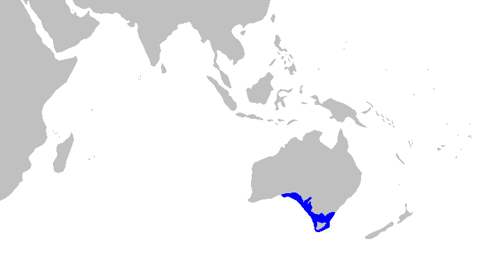 Distribution map for Pristiophorus nudipinnis